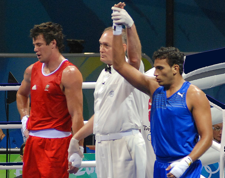 Moroccan Boxer Mohammed Arjaoui (right) and Bradley Pitt (left)